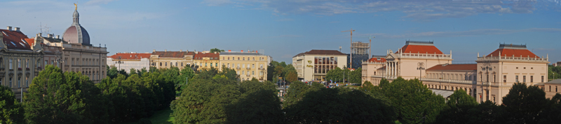 Panorama of Zagreb Main Station area shot from Hotel Esplanade, Zagrabe